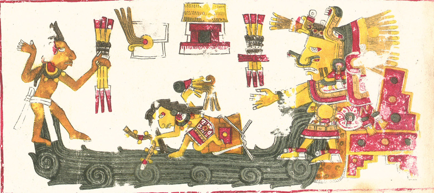 A drawing of Chalchiuhtlicue, one of the deities described in the Codex Borgia